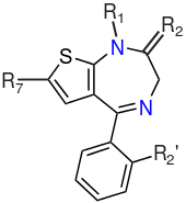 The general skeletal structure of a Thienodiazepine.